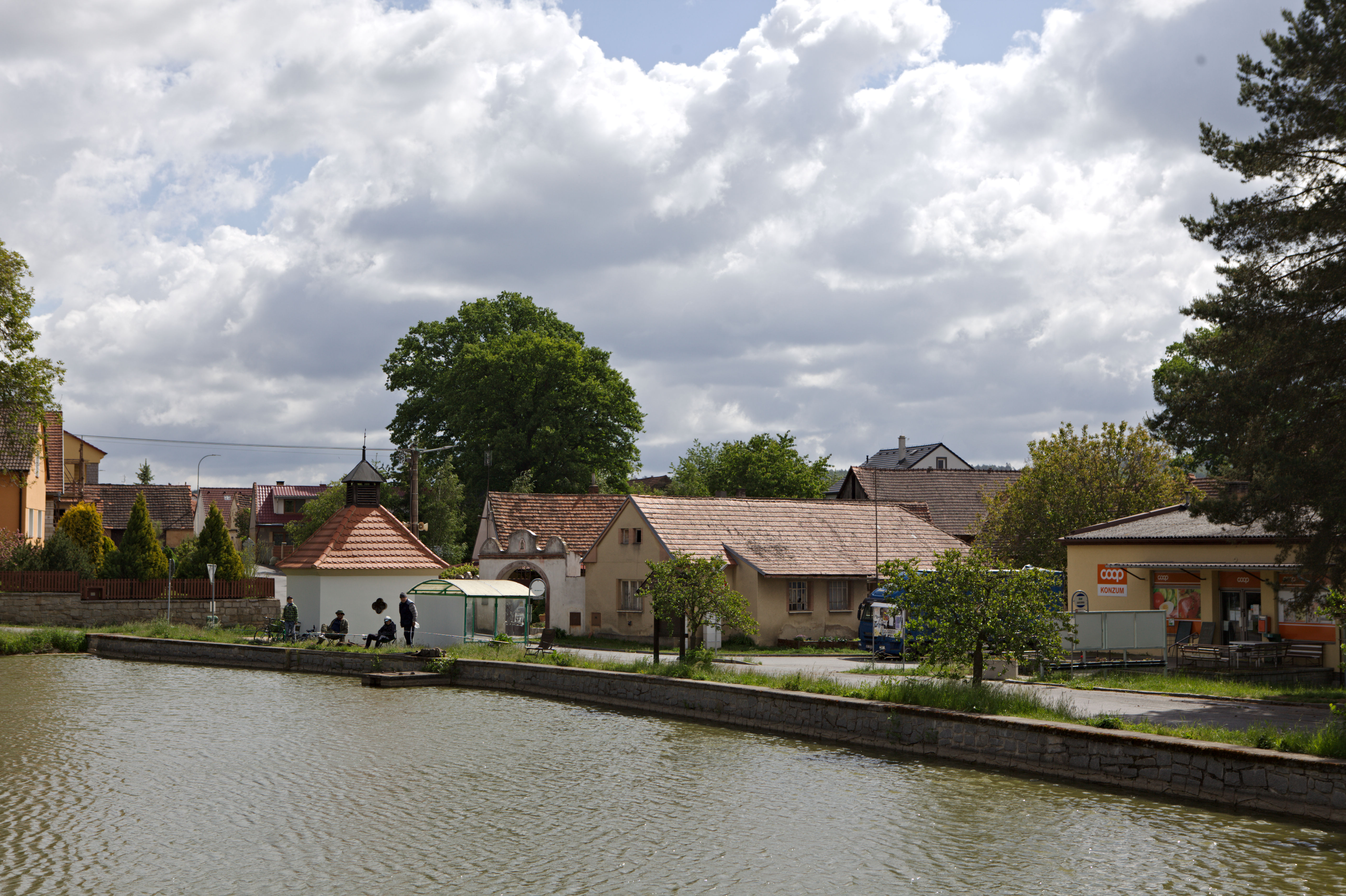 Rybáři na návsi Štěnovického Borku